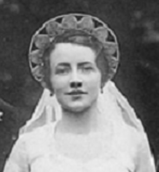 Private photo of Jill Esmond, 1930